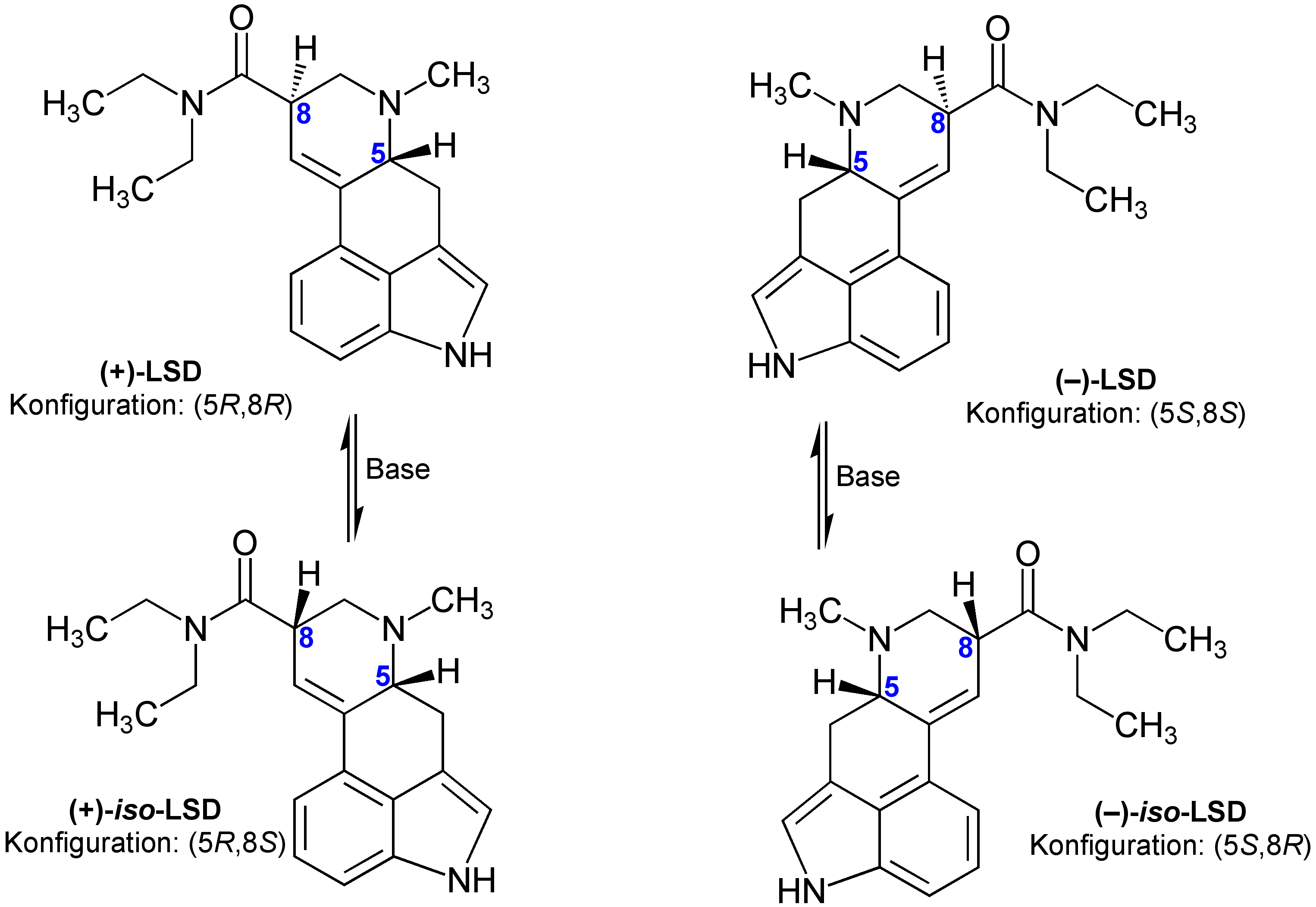 Lysergide_ans_iso-Lysergide_stereoisomers_structural